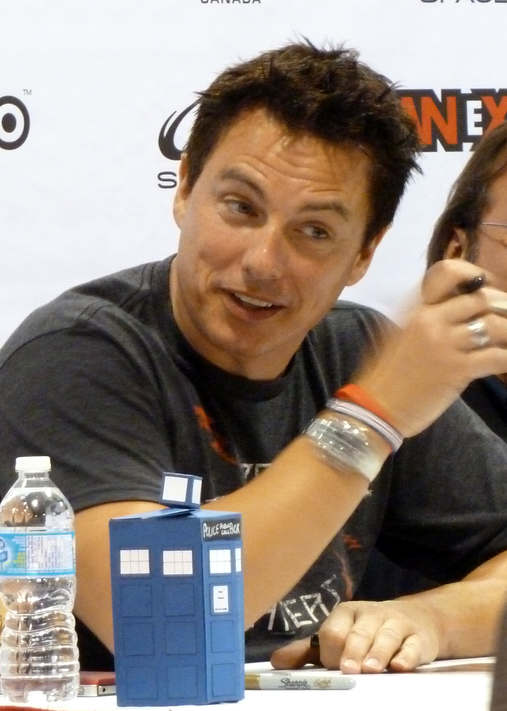 Fan Expo Canada in Toronto in 2012.